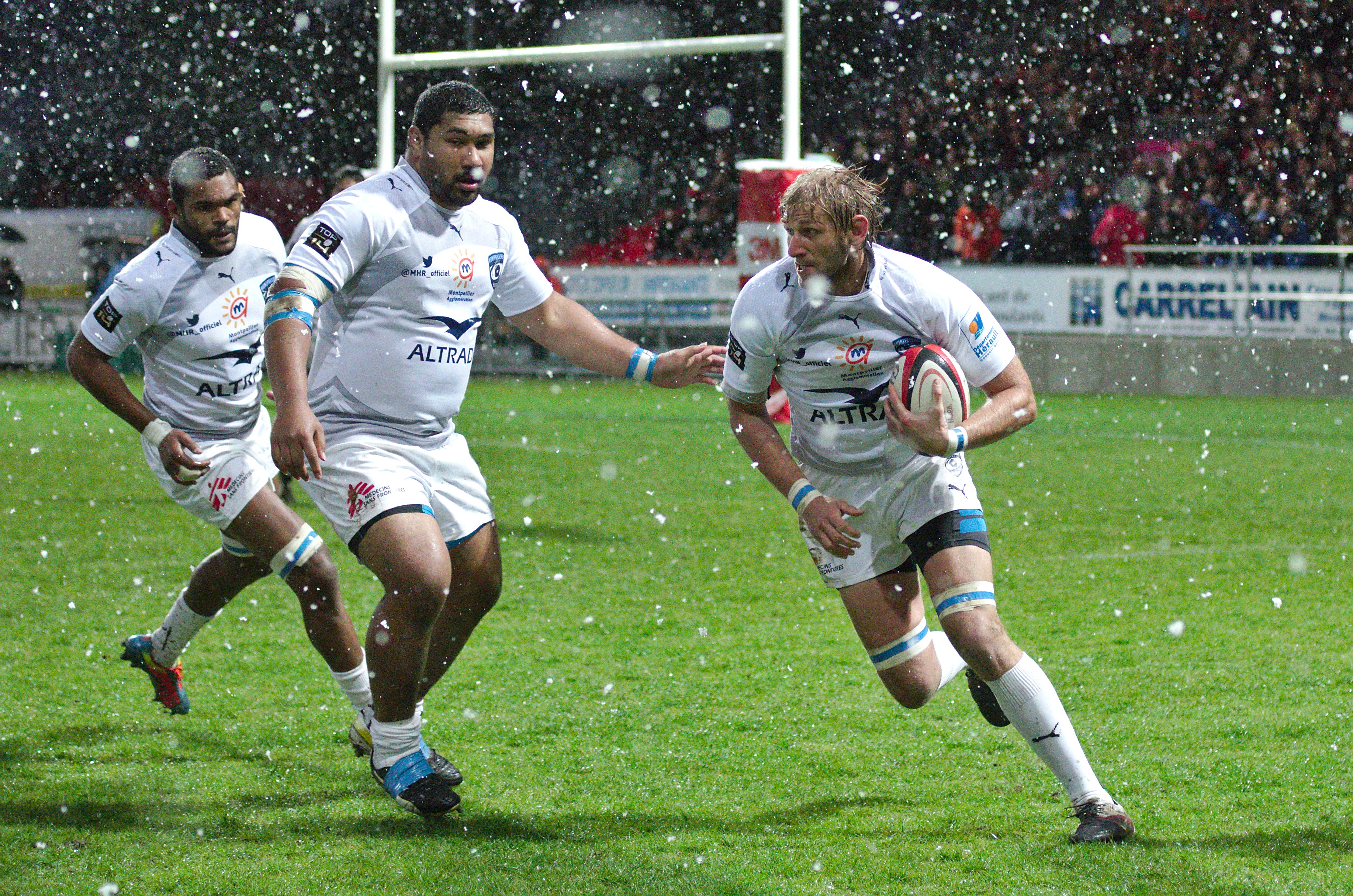 USO-MHR - 20140324 - Thibaut Privat